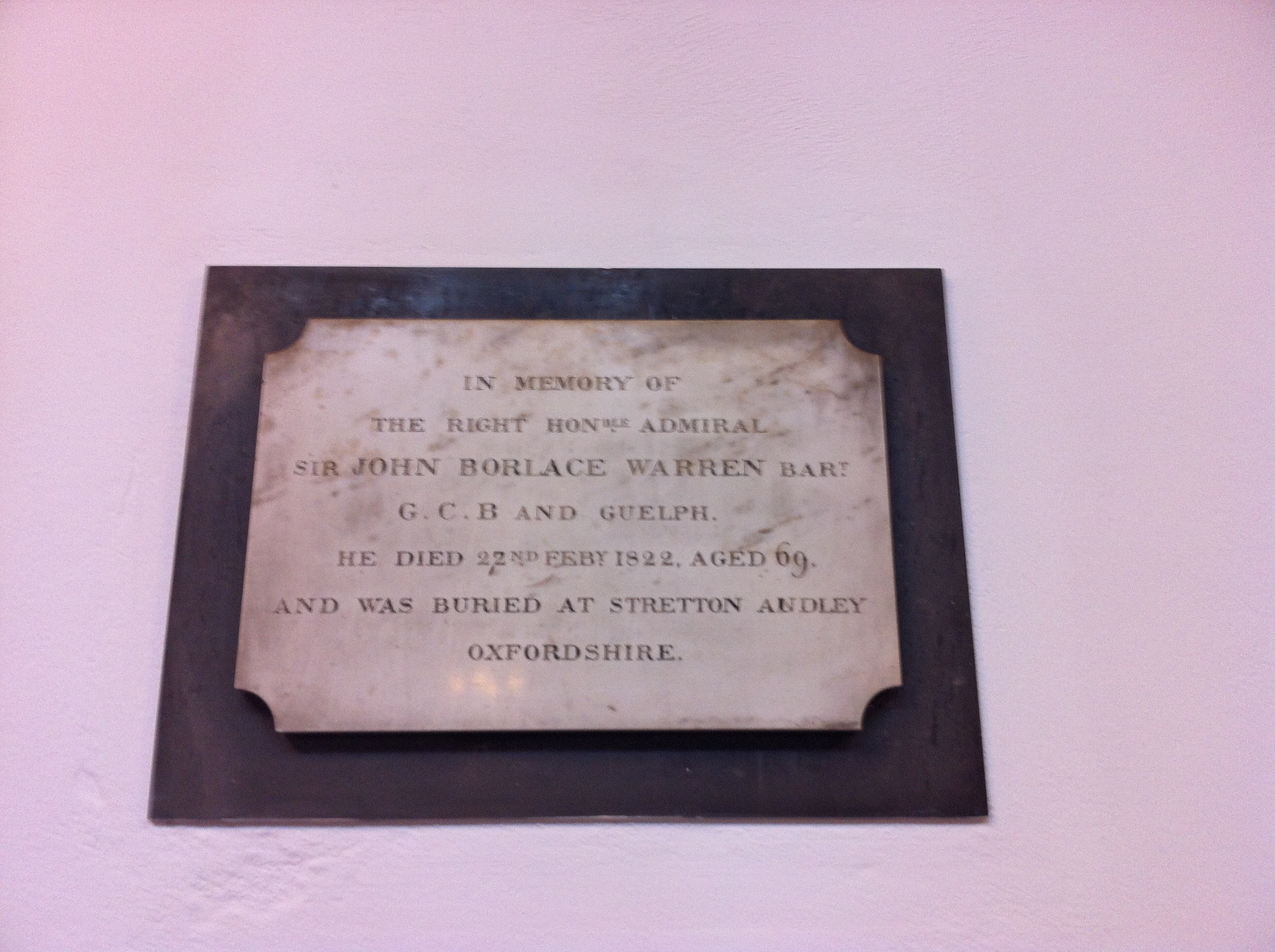 Memorial to Sir John Borlase Warren, 1st Baronet, in St. Mary's Church, Attenborough